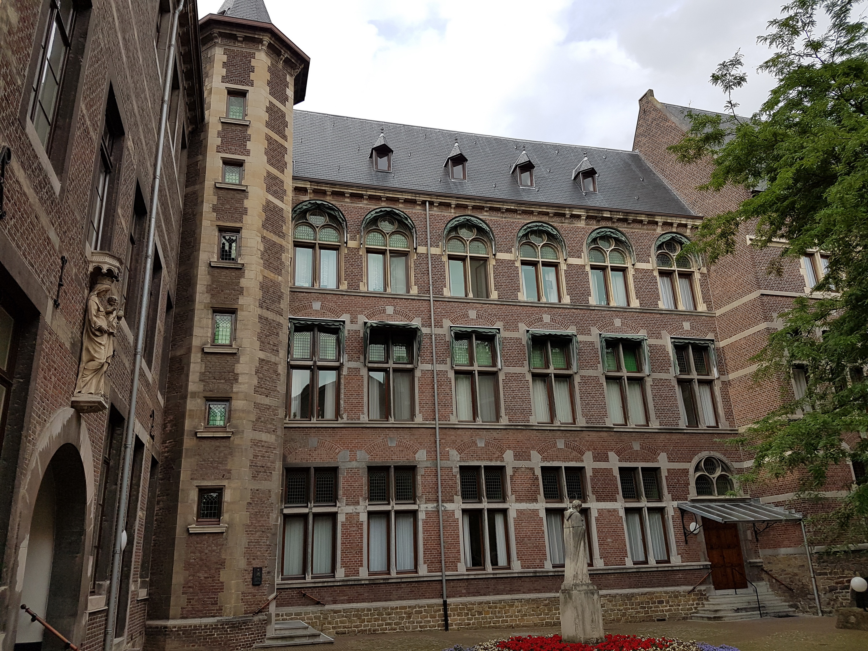 View of the 1682 provostry of Saint Servatius in Maastricht, the Netherlands. Since 1845 this building is part of the Monastery of the Sisters of Mercy of St. Borromeo (Zusters onder de Bogen).